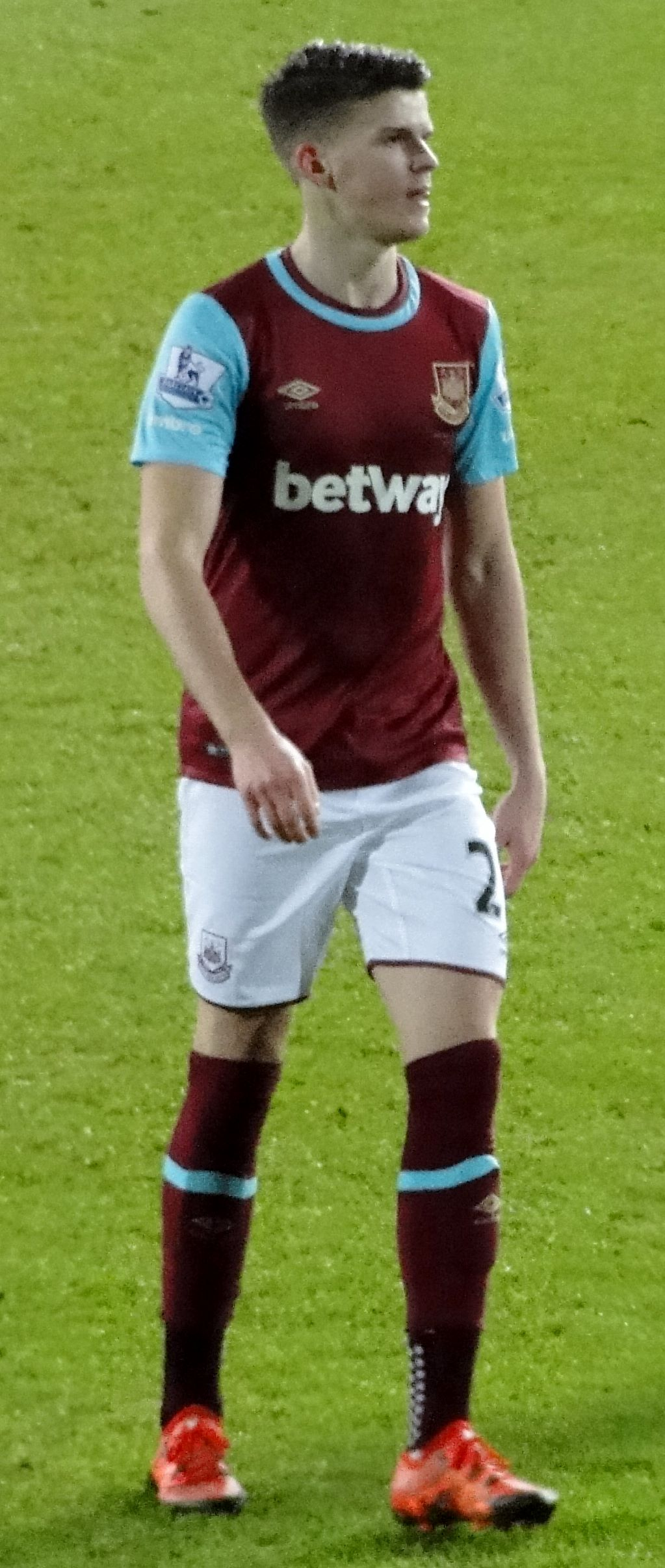 West Ham United player, Sam Byram during his West Ham debut game v Manchester City at the Boleyn Ground, January 2016